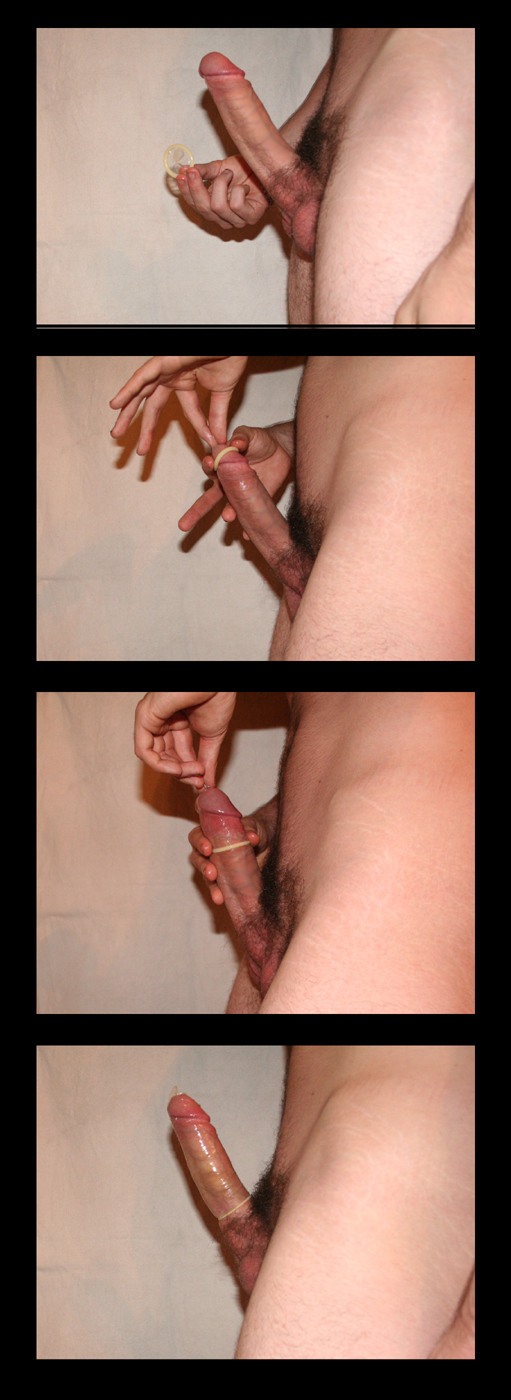 How to put on a condom. Selfpics.